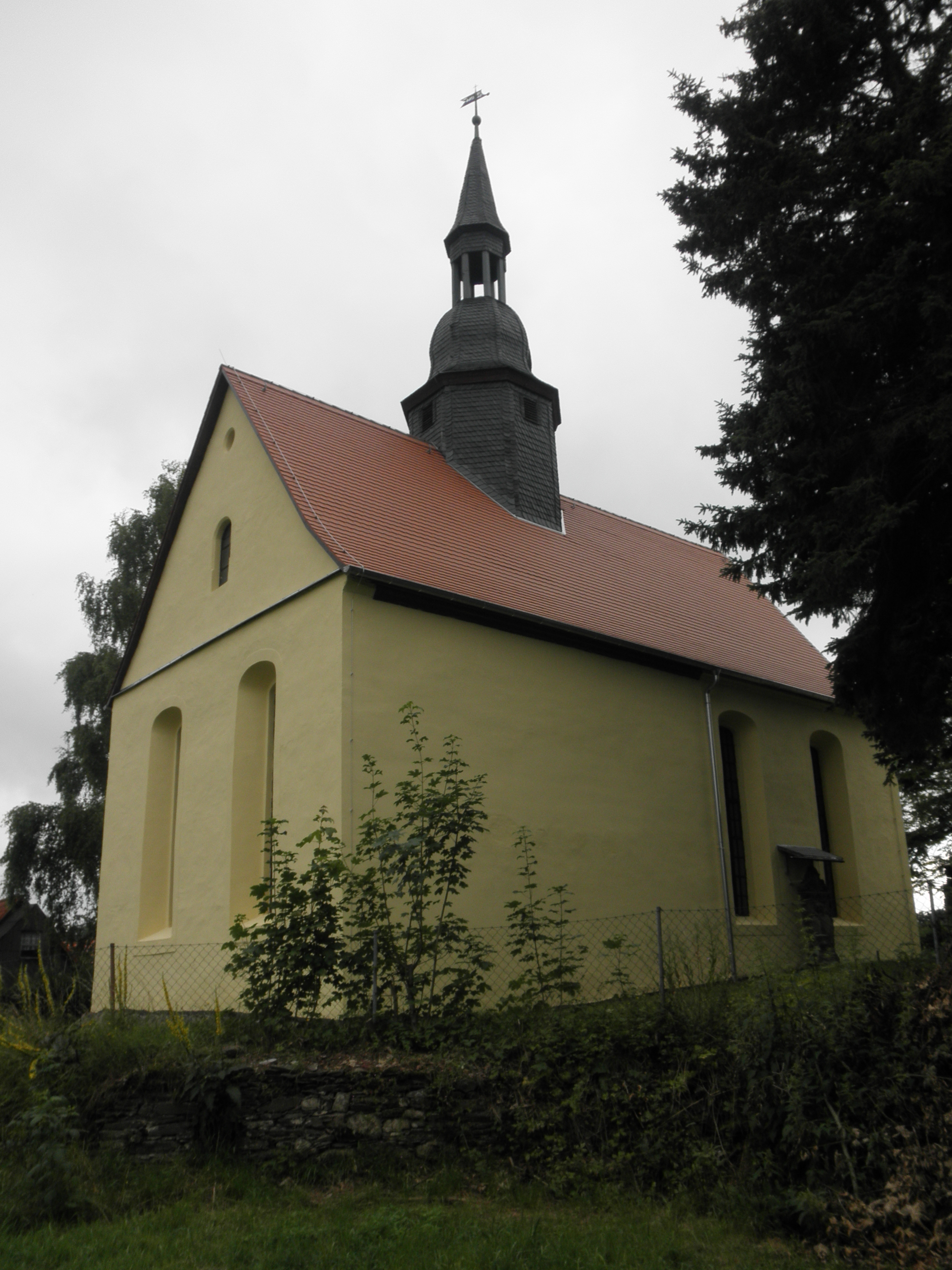 Church in Oberpöllnitz (Triptis) in Thuringia